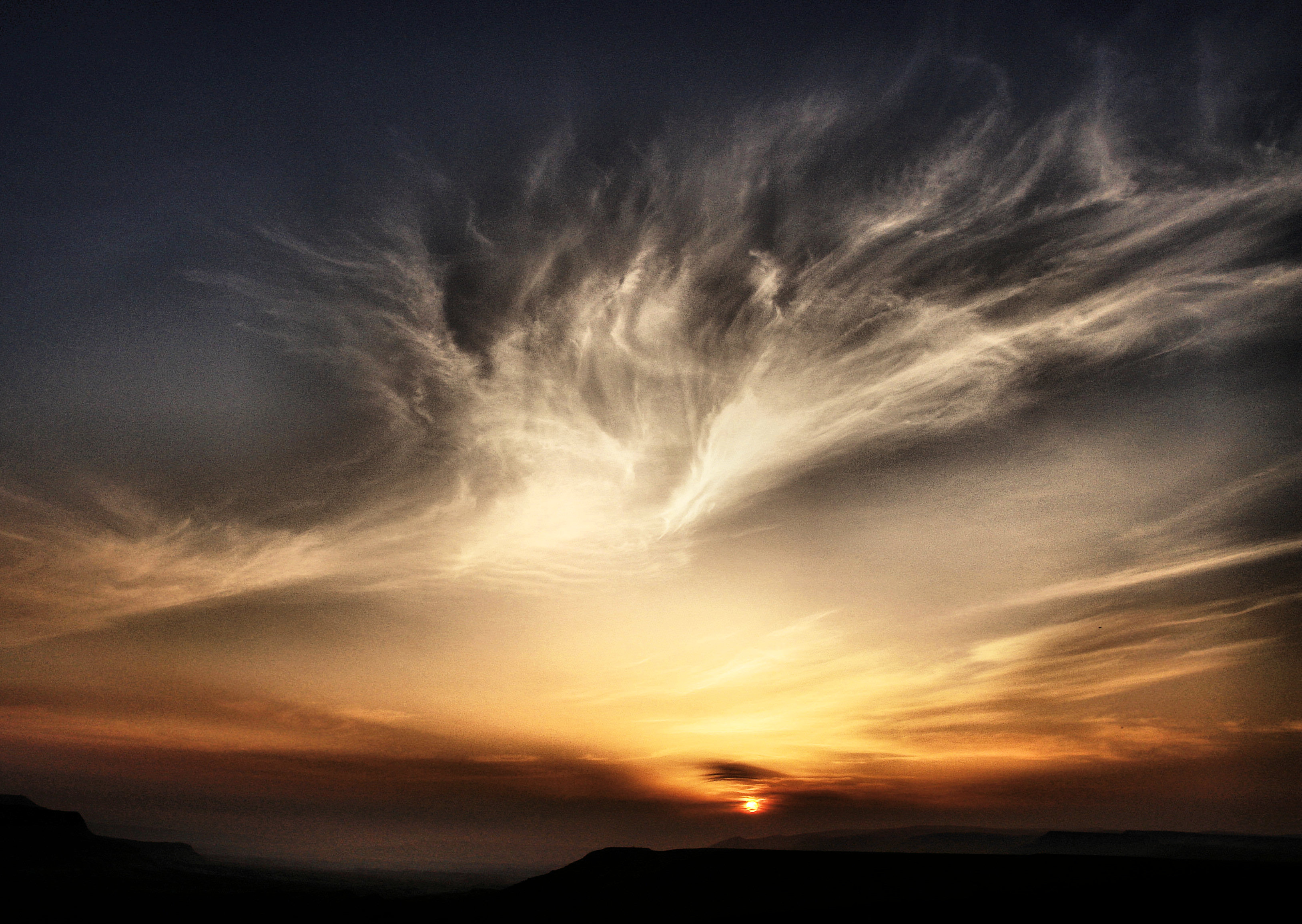 Sunset in the Negev, Israel